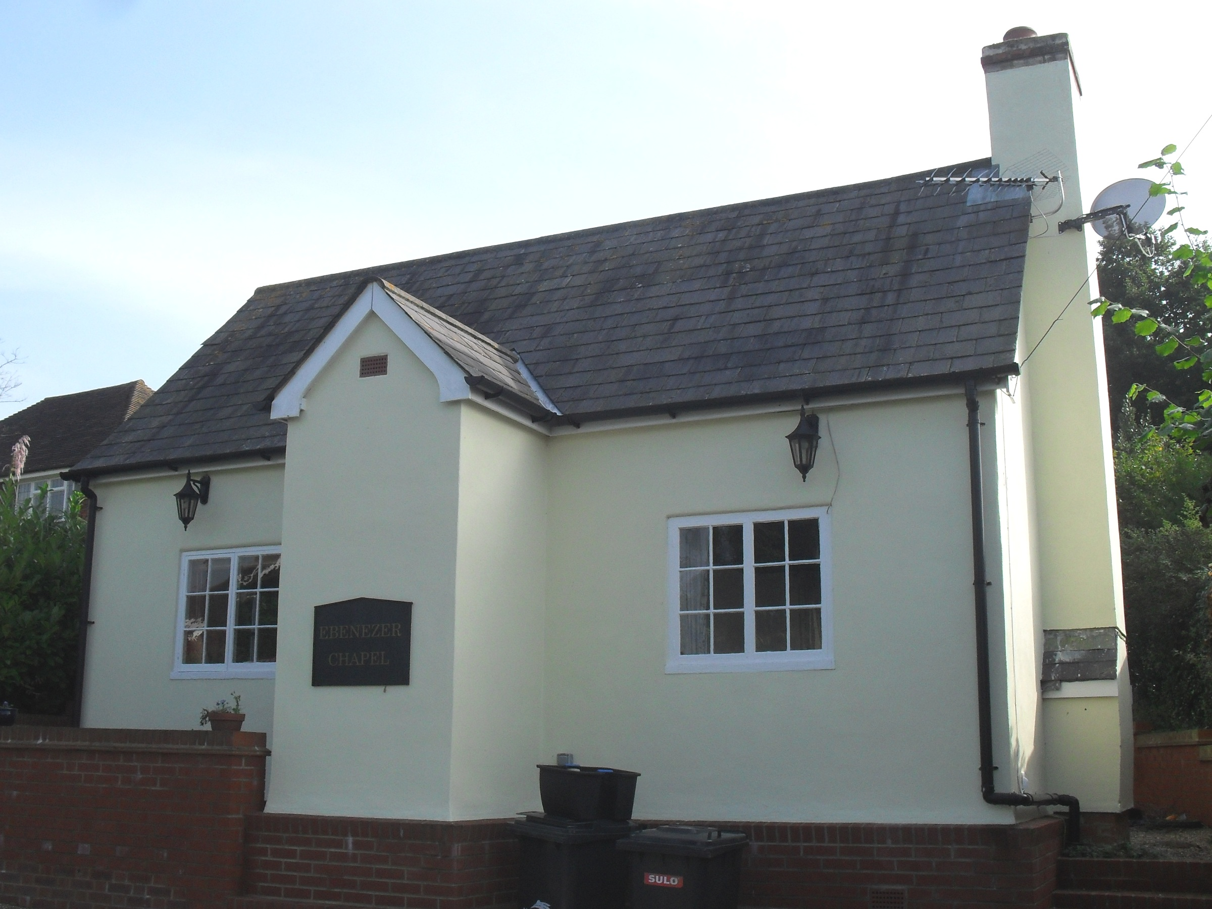 Former Ebenezer Strict Baptist Chapel, Magham Down, near Hailsham, Wealden, East Sussex, England. Now a house.